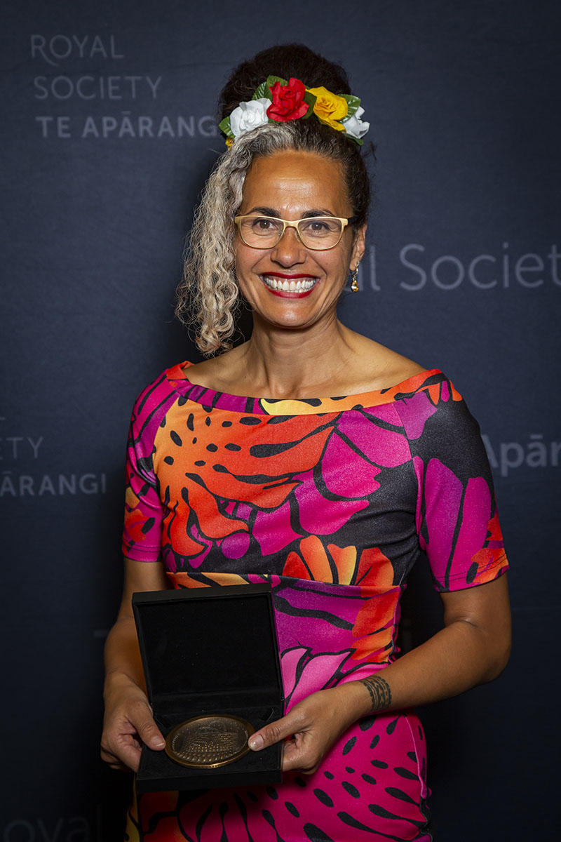 Associate Professor Selina Tusitala Marsh ONZM, 2017-19 New Zealand Poet Laureate and notable Pacific scholar, has been awarded the Humanities Aronui Medal by Royal Society Te Apārangi for her outstanding creative and scholarly work which has had a profound impact in academic, literary and public domains. This was at Research Honours Aotearoa, an annual awards ceremony that recognises achievements and contributions of innovators, kairangahau Māori, researchers and scholars in science, technology and humanities throughout Aotearoa New Zealand, which was held in Ōtepoti Dunedin on 17 Whiringa-ā-nuku October 2019.